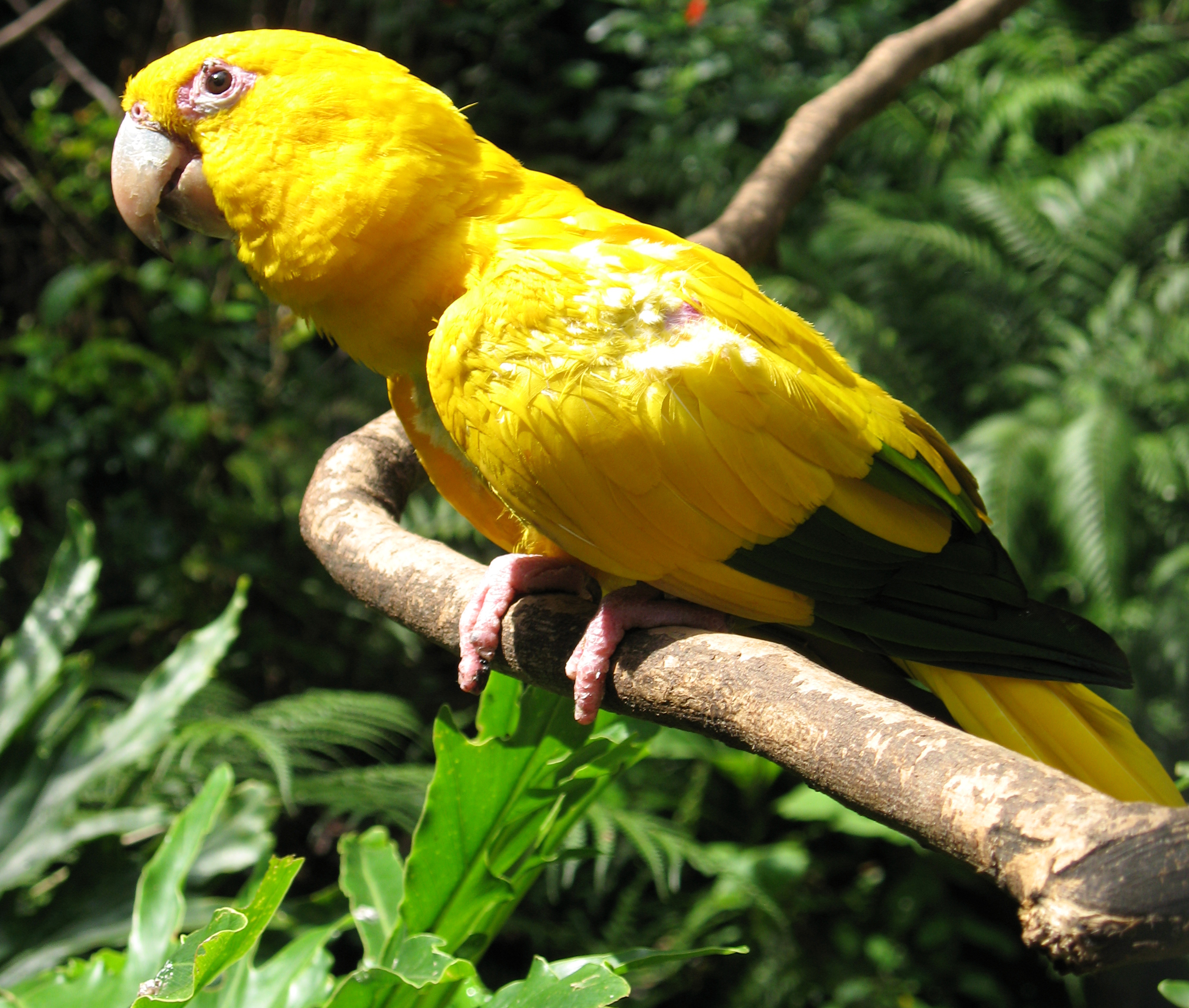 Golden Conure, (formerly classified as Aratinga guarouba; also known as the Golden Parakeet or the Queen of Bavaria Conure) at the Parque das Aves, Foz do Iguaçu, Brazil